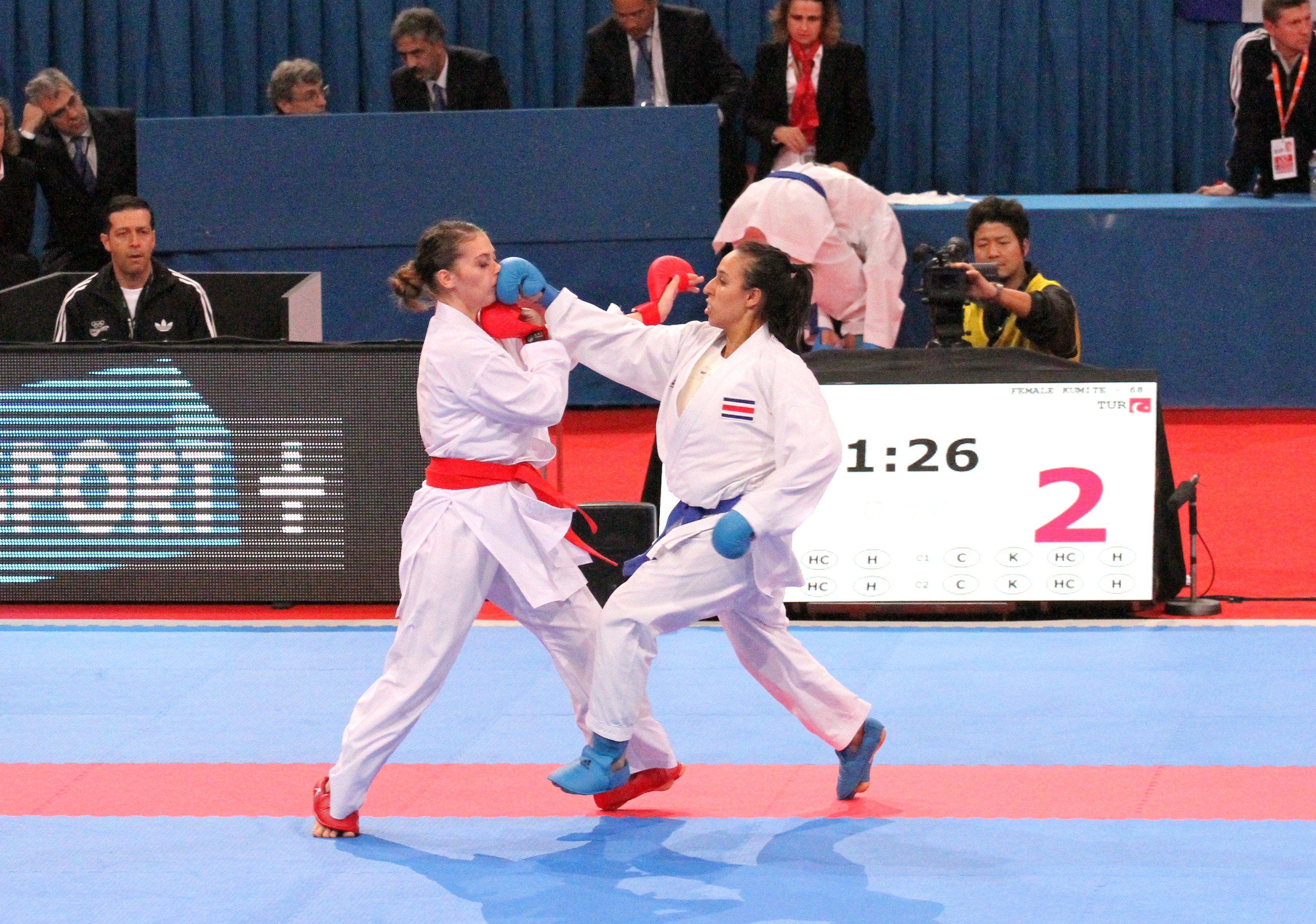 Karate World Championships in Paris 2012